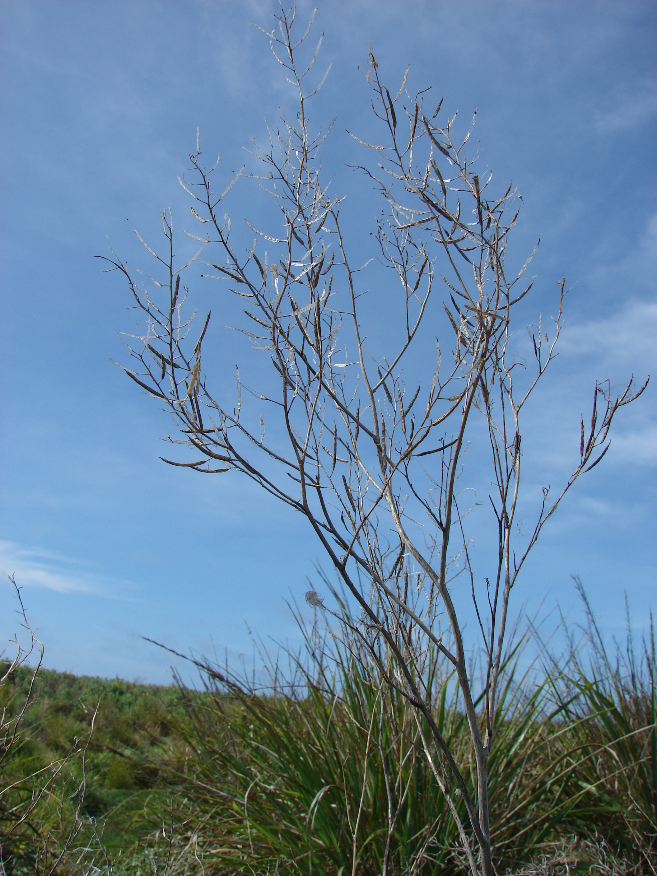 Brassica nigra (old seedheads with Laysan albatross). Location: Midway Atoll, Eastern Island